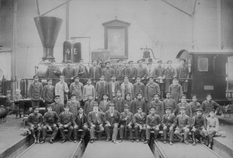 Workers and employees of Rybinsk railway workshops.